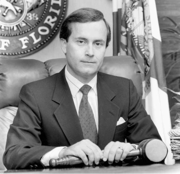 Official portrait of Robert B. Crawford, Florida Commissioner of Agriculture 1991-2001